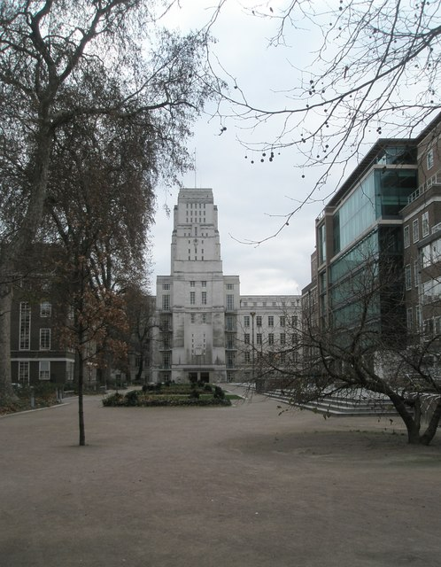 Side view of Senate House from Woburn Square